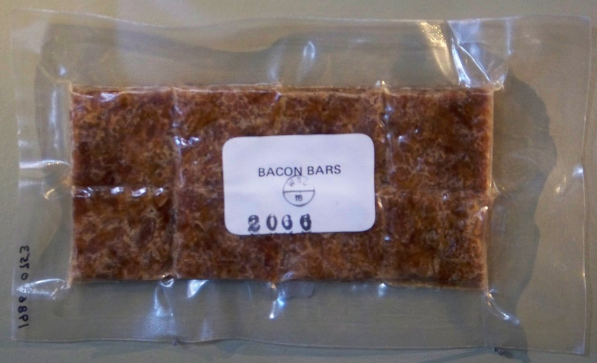 Freeze-dried bacon bars. Space food in the Smithsonian Museum, Washington, D.C., USA